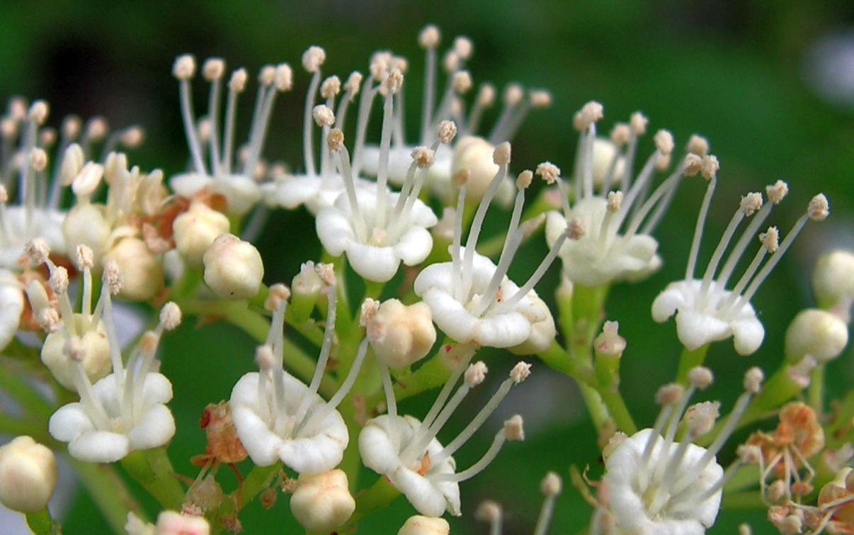 The flowers of cultivated Guelder rose (Viburnum opulus). Moscow region, Russia.